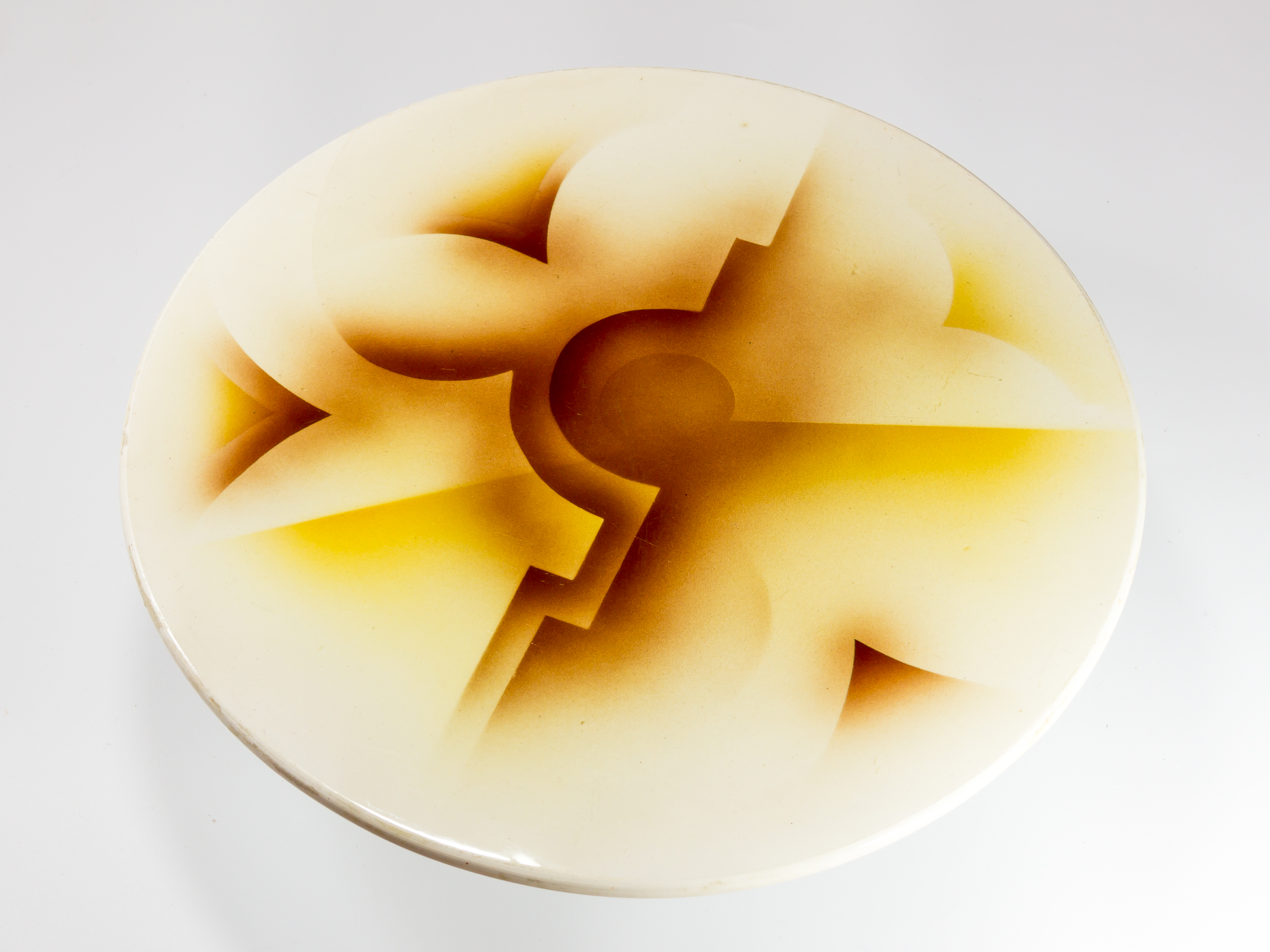 Cake plate